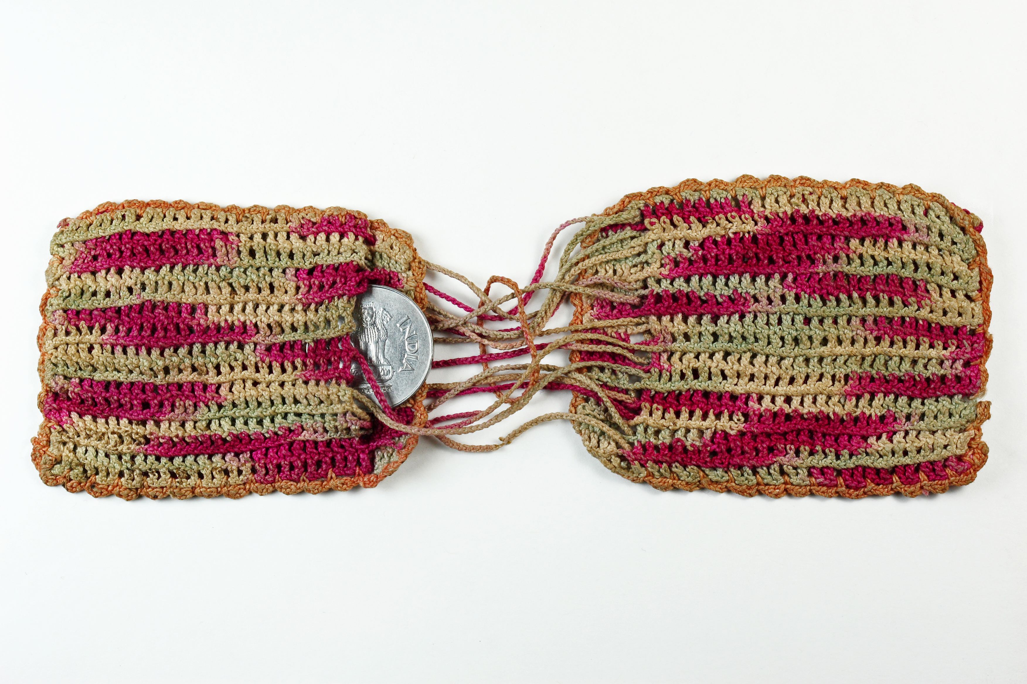 An antique Indian purse used to hold coins. The purse seems to be made of jute with strings used to hold the 2 ends. It is opened (or closed) by pulling out (or tightening the strings to close) one side, as seen in the picture. Women carried it around by placing it near their waist with support from petticoat.